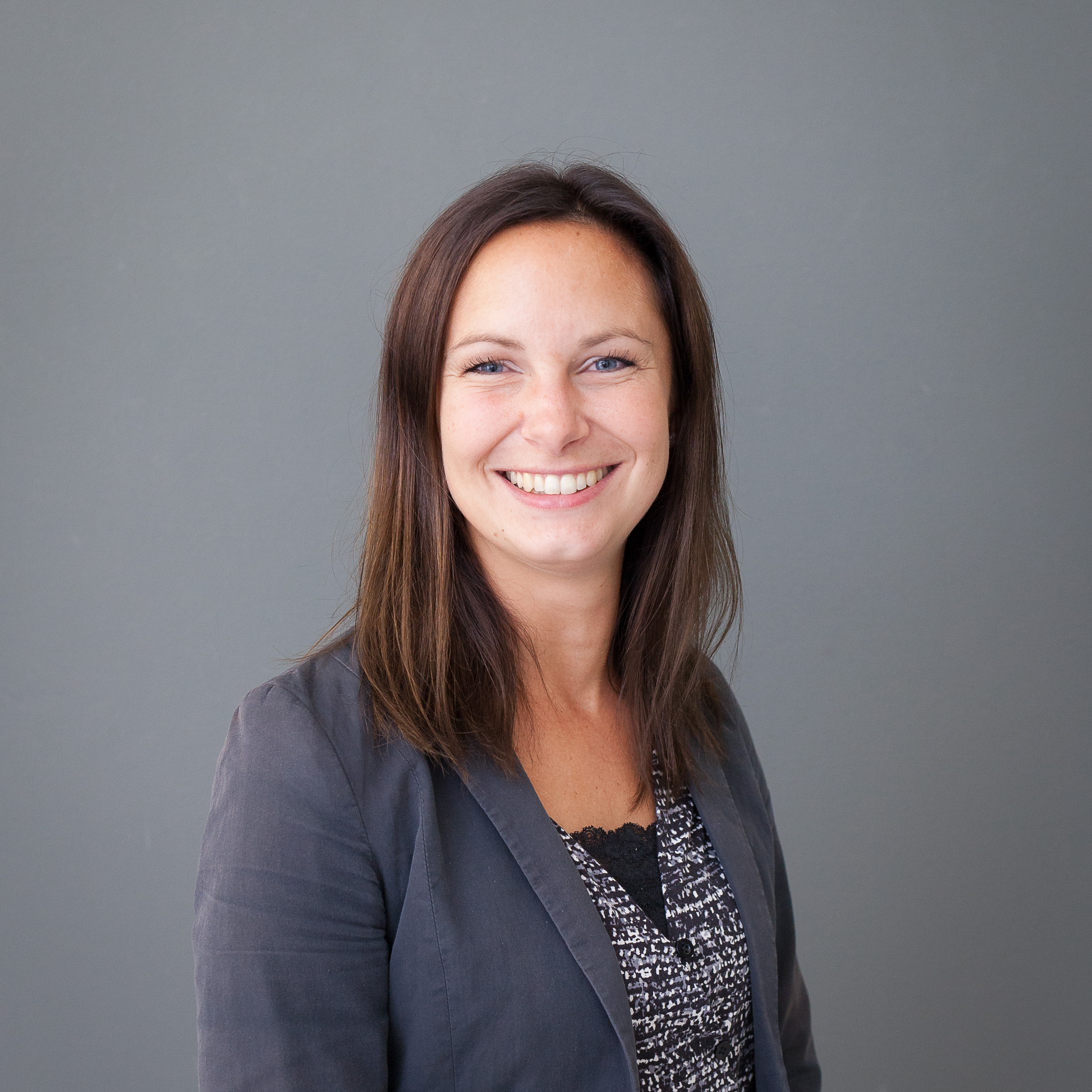 Isabella Peters